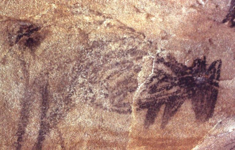 Aboriginal charcoal drawing of kangaroo in rock shelter along Myuna Creek, Heathcote National Park, Sydney (Kodachrome slide scanned at low res)